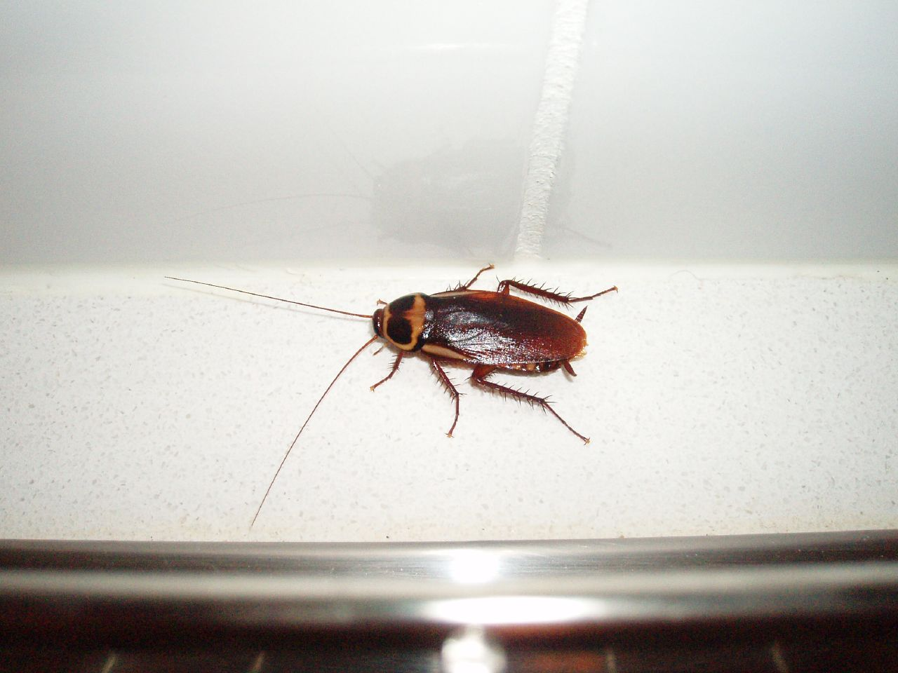 An australian cockroach. Periplaneta australasiae